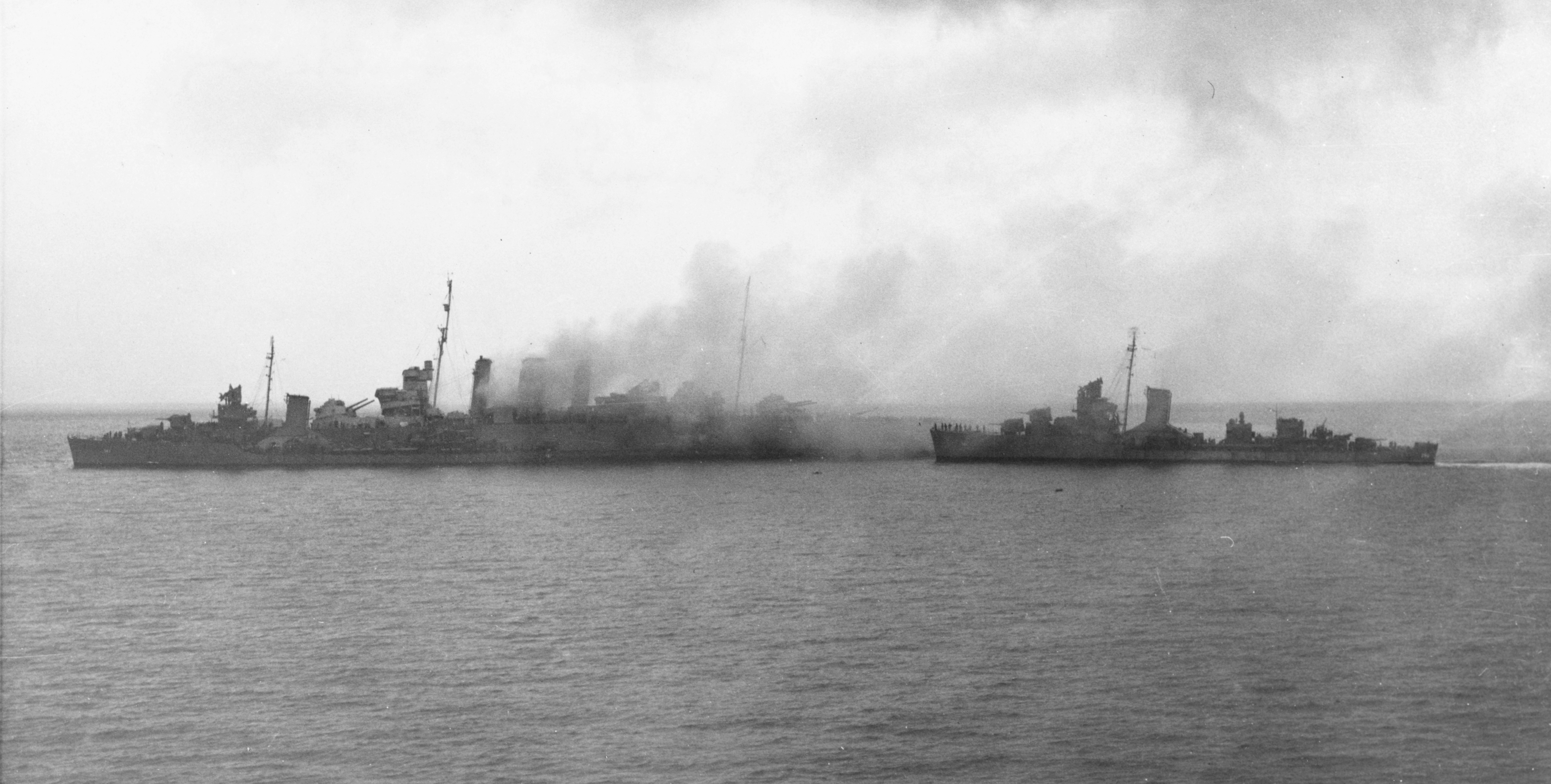 U.S. Navy destroyers remove the crew from the sinking Royal Australian Navy heavy cruiser HMAS Canberra (D33) after the Battle of Savo Island, 9 August 1942. USS Blue (DD-387) is alongside Canberra´s port bow, as USS Patterson (DD-392) approaches from astern.